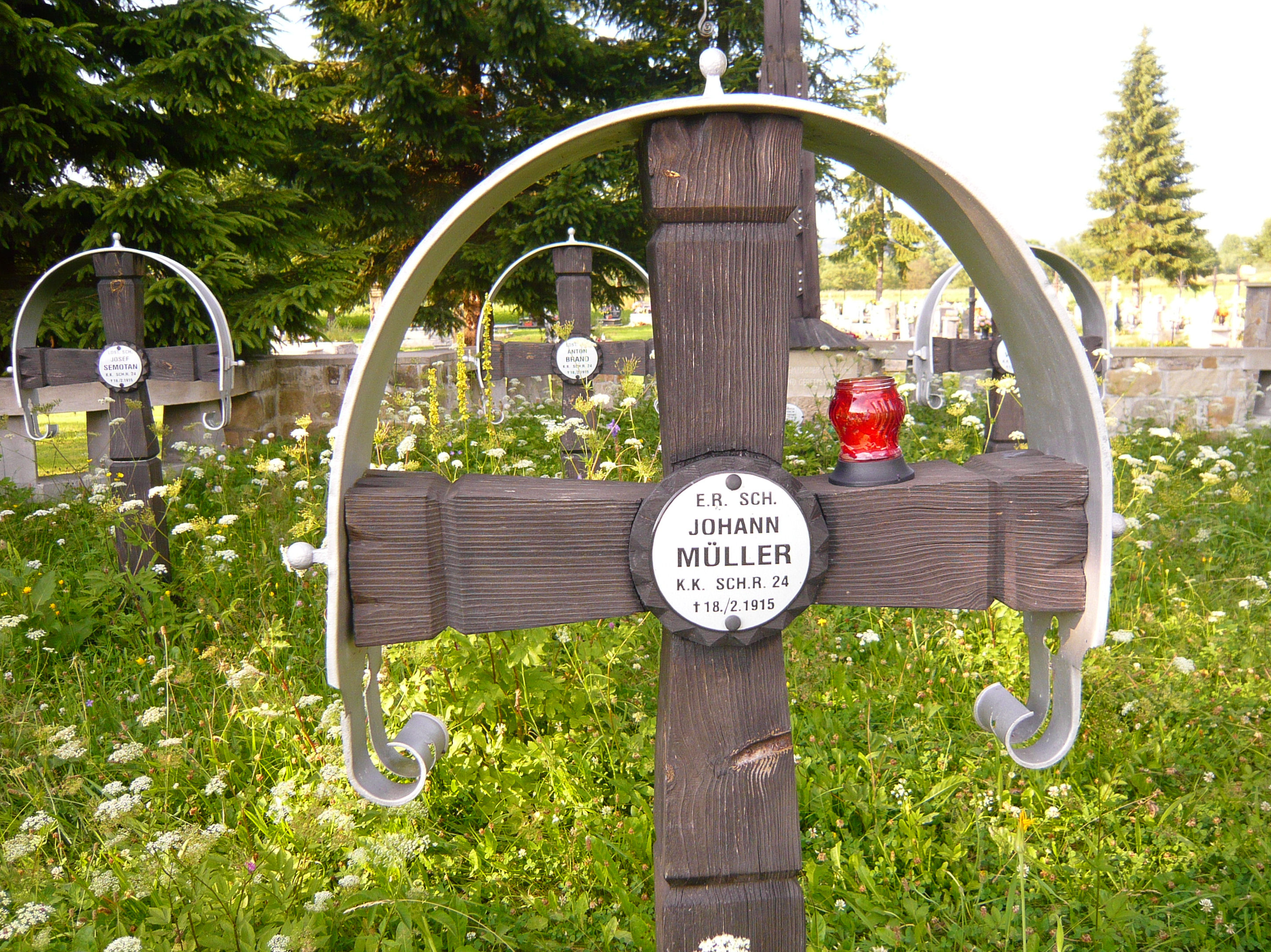 World War I Cemetery nr 56 in Smerekowiec